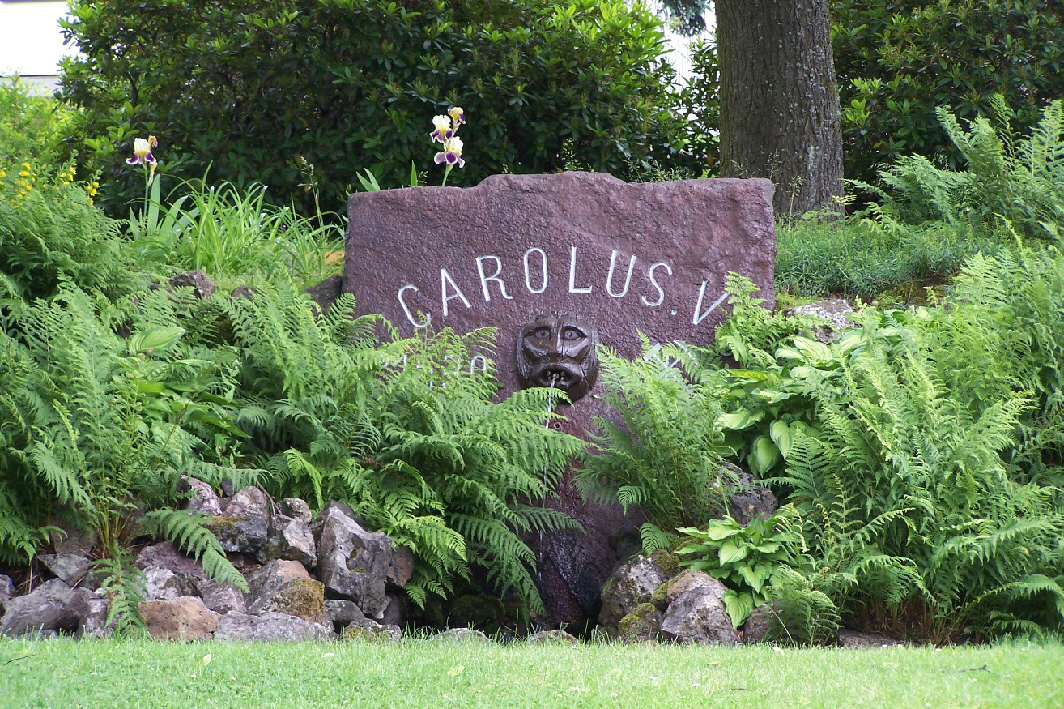 The CAROLUS QUINTUS SPRING in Brotterode.